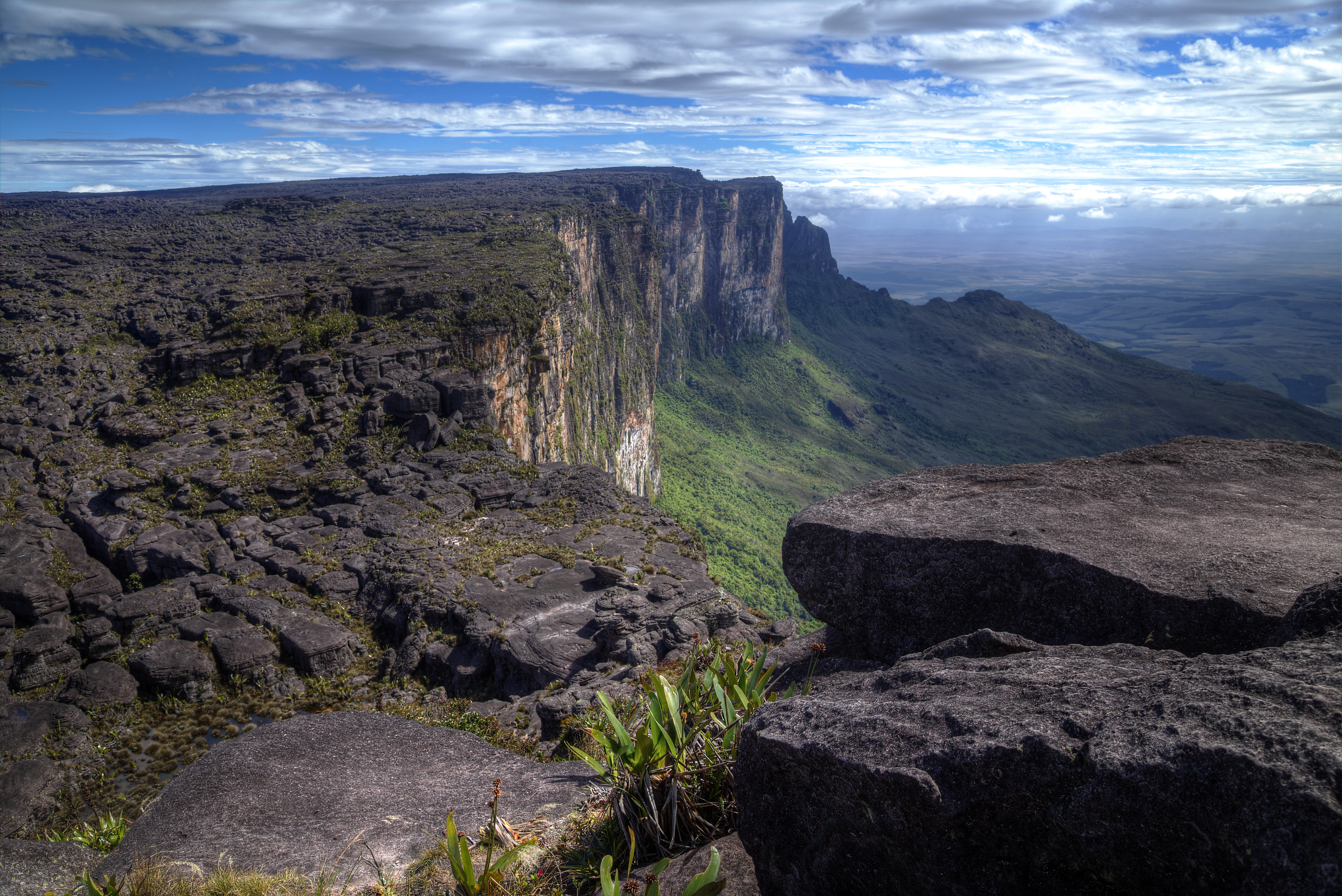 Highest point of Mount Roraima in the Venezuelan side